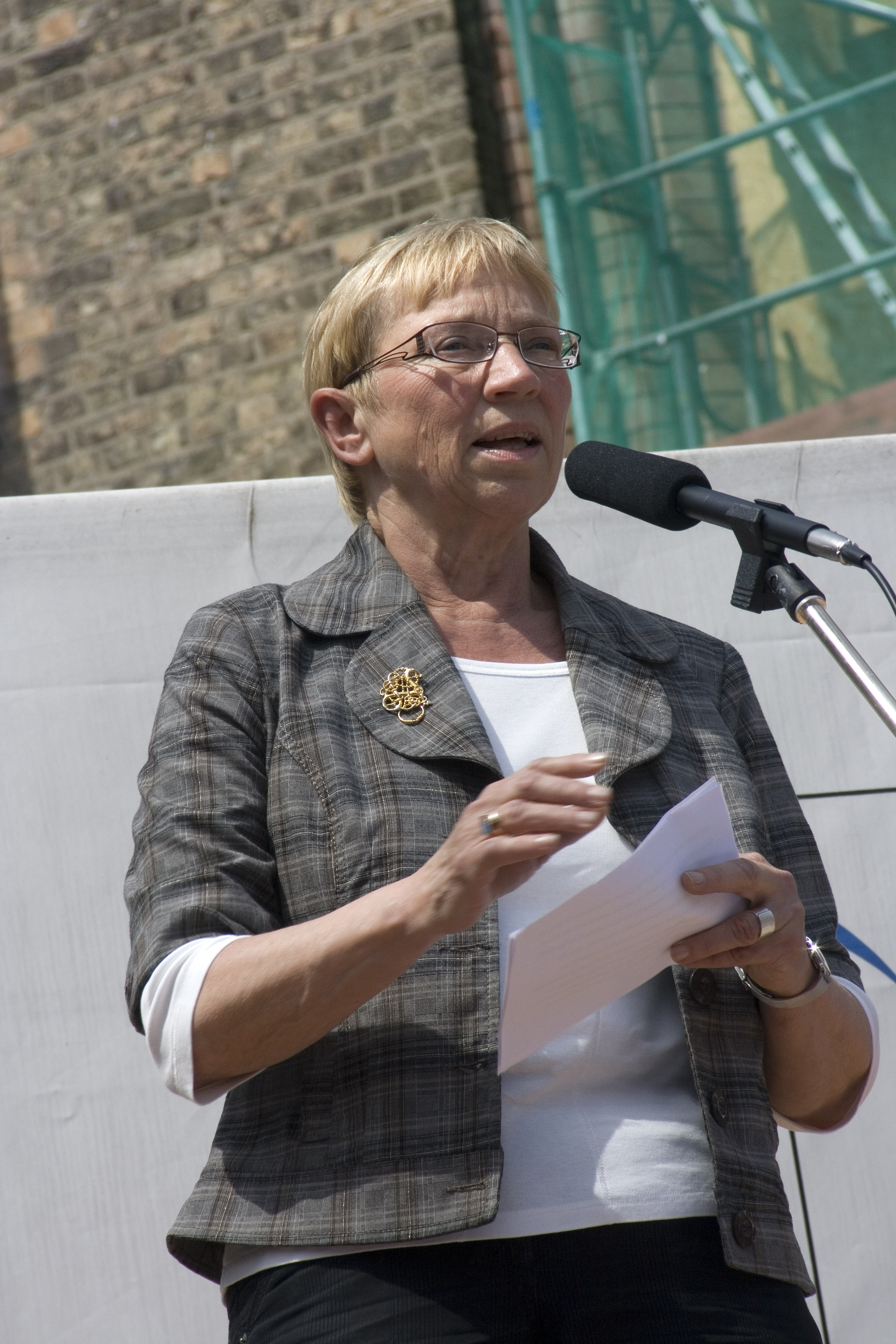 German politician Anke Spoorendonk, member of the Landtag of Schleswig Holstein for the party "South Schleswig Voter Federation" (SSW).